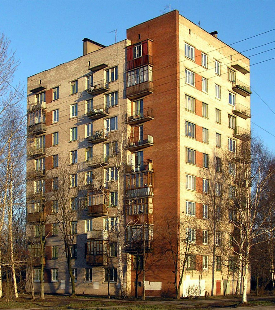 Nadyozhin house. Saint Petersburg